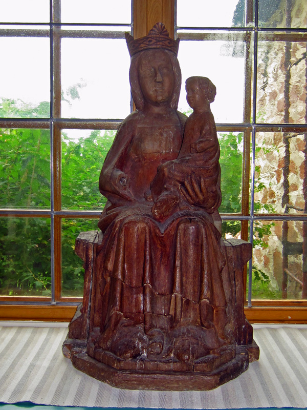 Madonna in Eckerö church, Åland, Finland